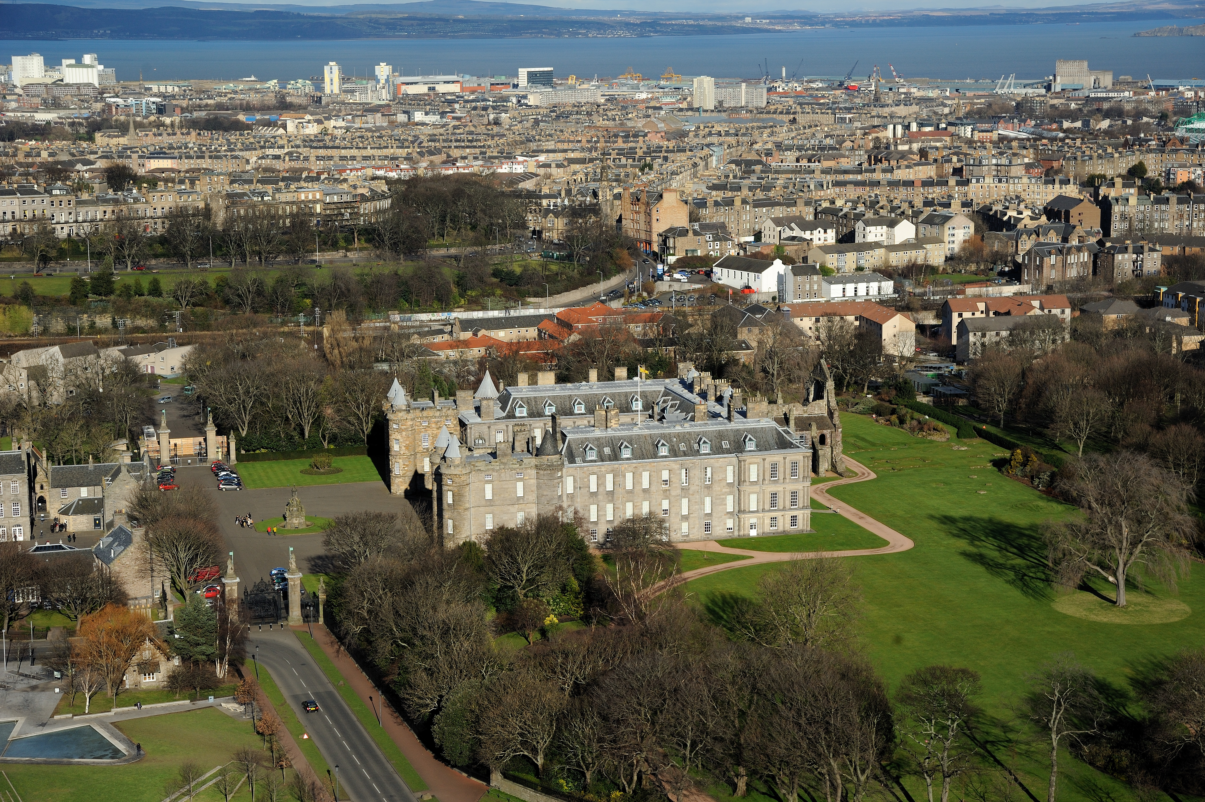 The Palace of Holyrood House and the Holyrood Abbey as viewed from the Salisbury Crags, Edinburgh, Scotland.